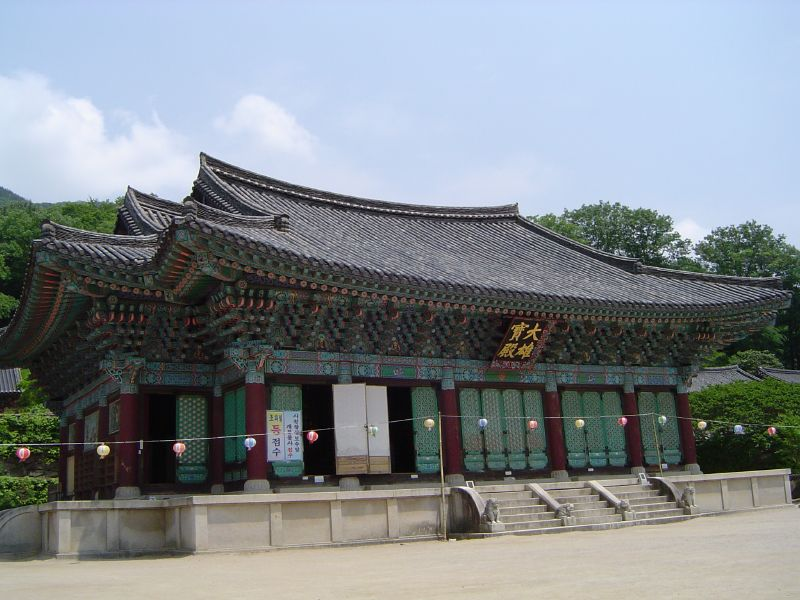 Songgwangsa, one of the most important Seon Buddhist monasteries in Korea and located in Jogyesan in Songgwang-myeon, Suncheon, Jeollanam-do.